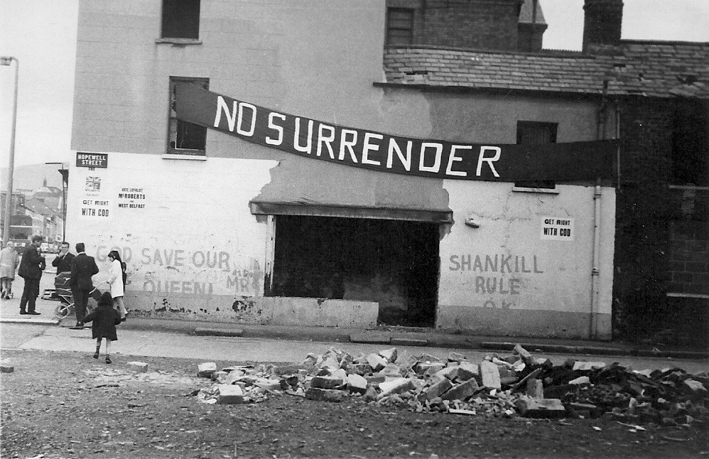 The Shankill road, Belfast during the troubles. From family album in my possession.